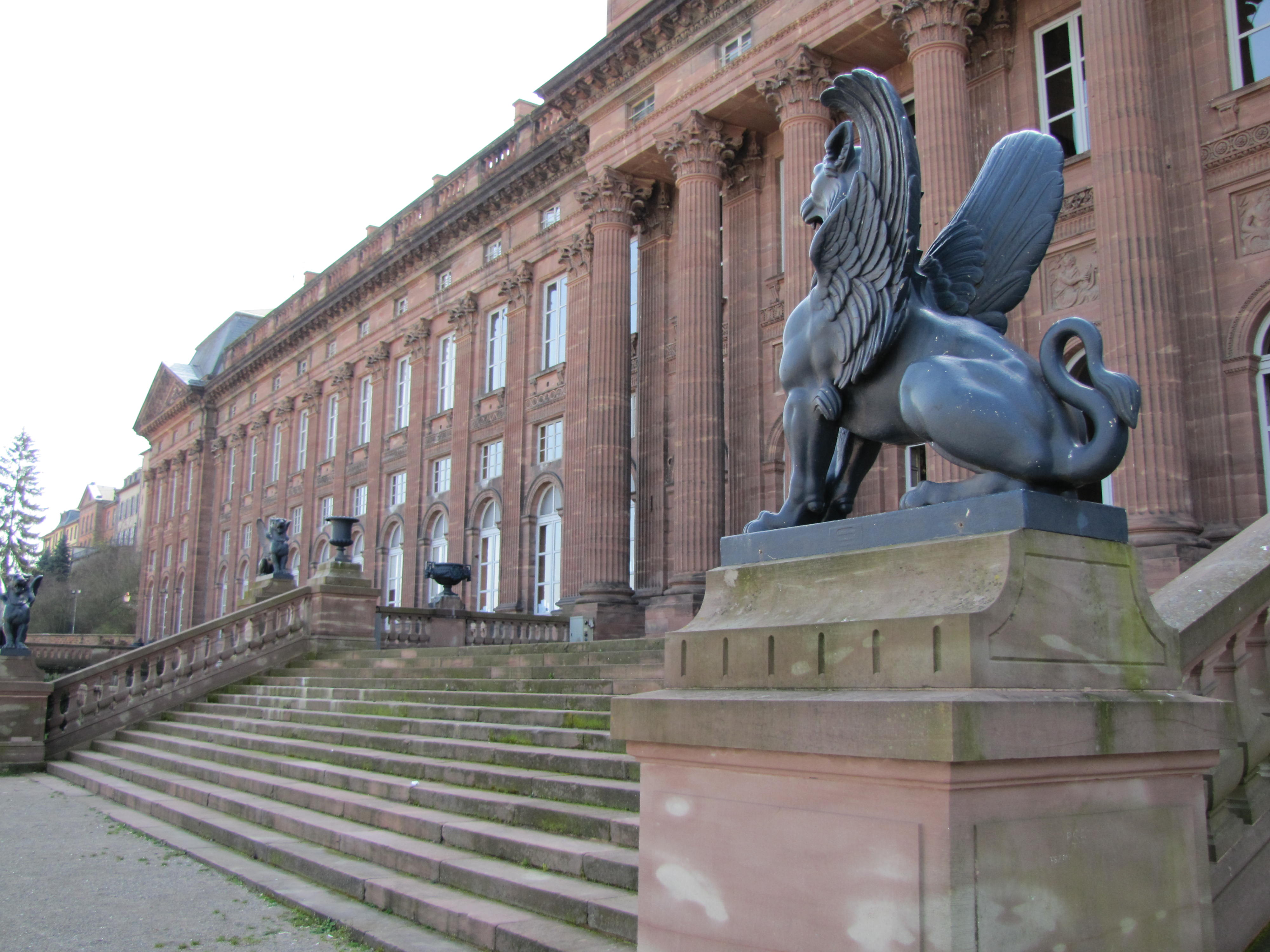 Alsace, Bas-Rhin, Saverne, Château des Rohan: Façade côté jardins. It is indexed in the Base Mérimée, a database of architectural heritage maintained by the French Ministry of Culture, under the references PA00084953 and IA00055456 .